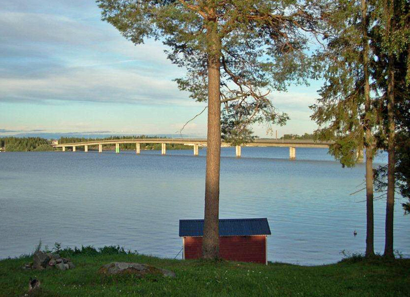 Obbolabron, the bridge between Obbola and Holmsund, seen from Nyvik on Obbola island.